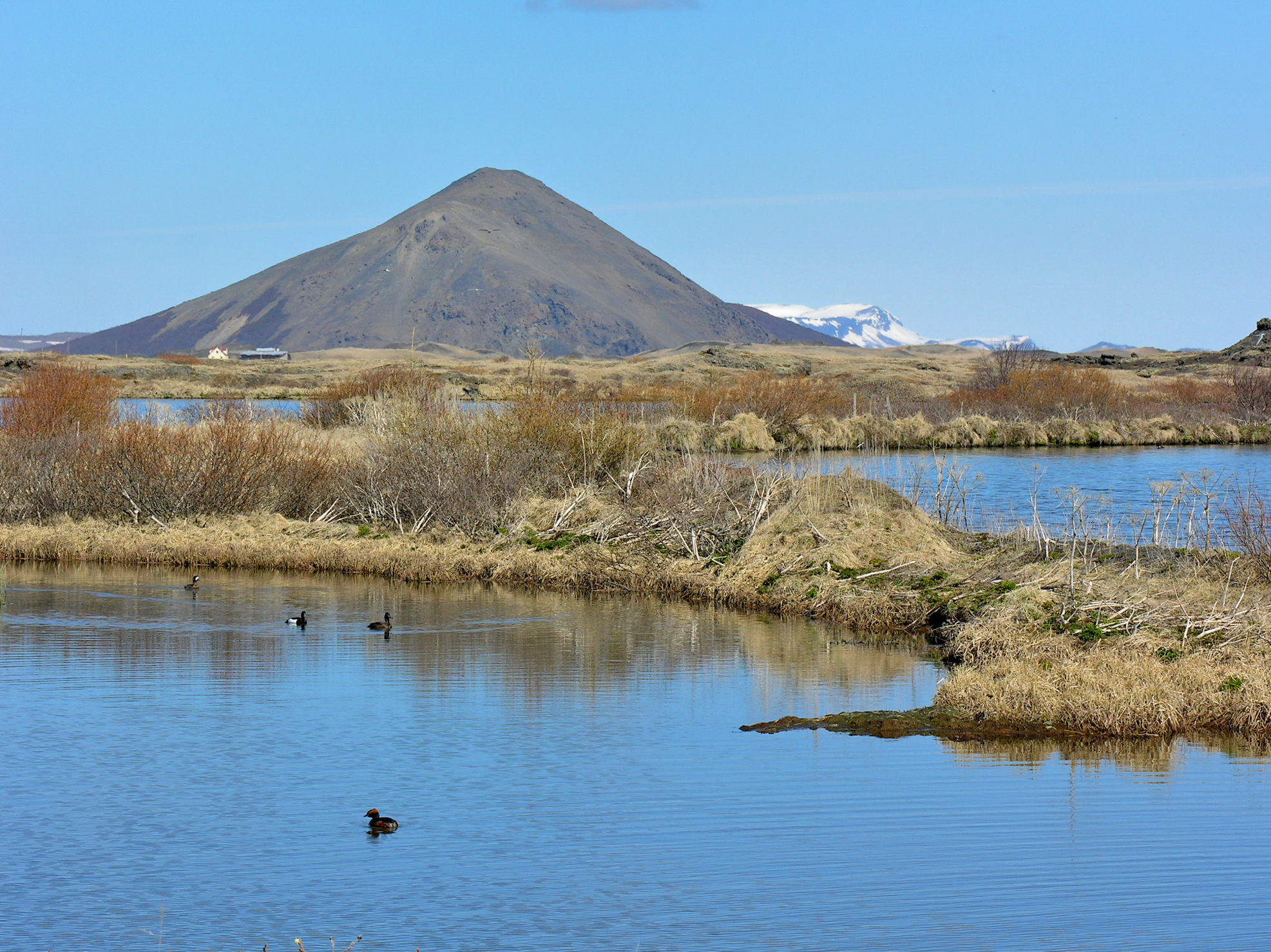 Iceland, Mývatn in Northern Iceland with the volcanoe Vindbelgjarfjall in the background.